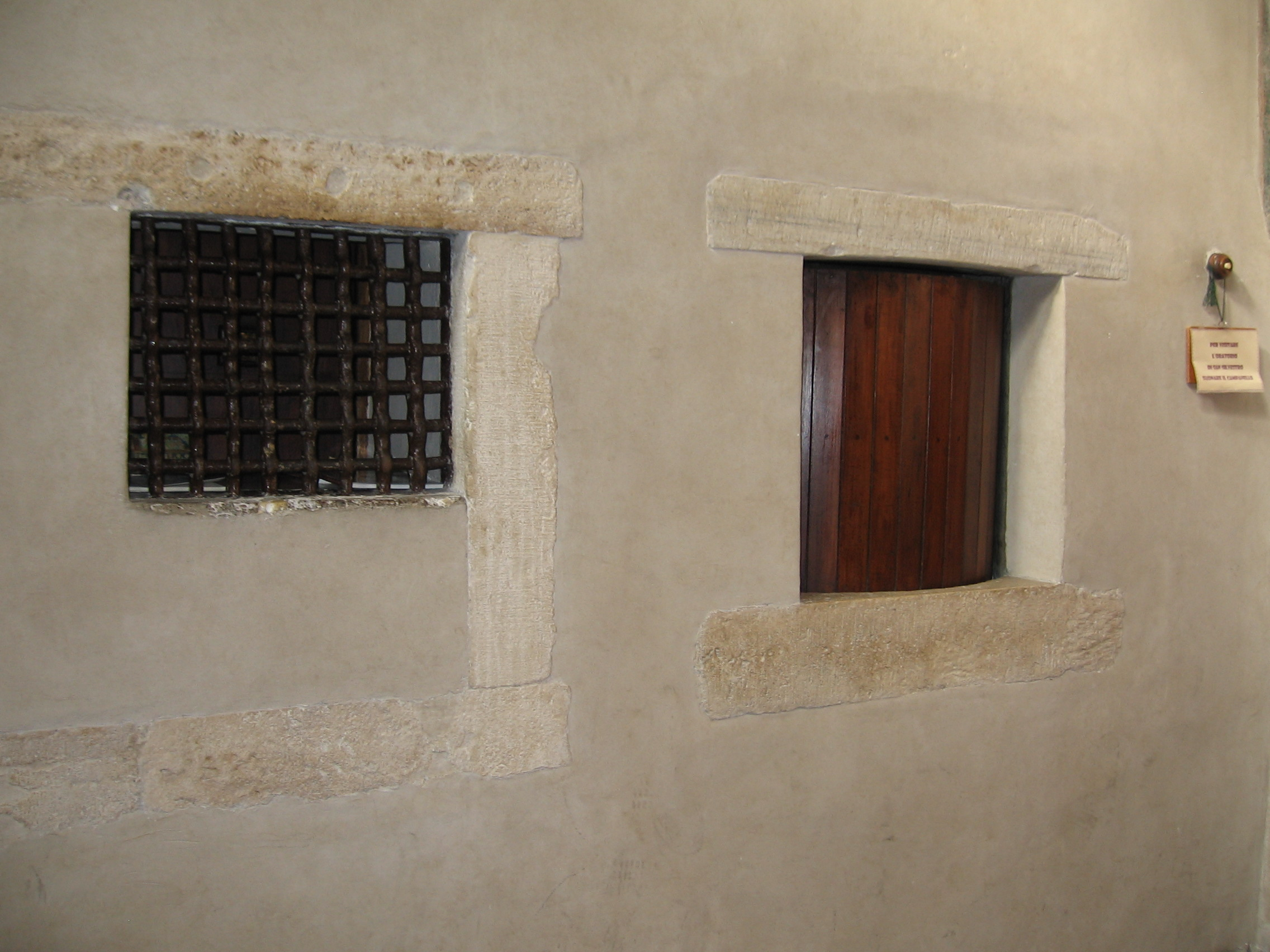 The parlour of a convent of a contemplative catholic nuns: the screened window, revolving 'tour' and bell.